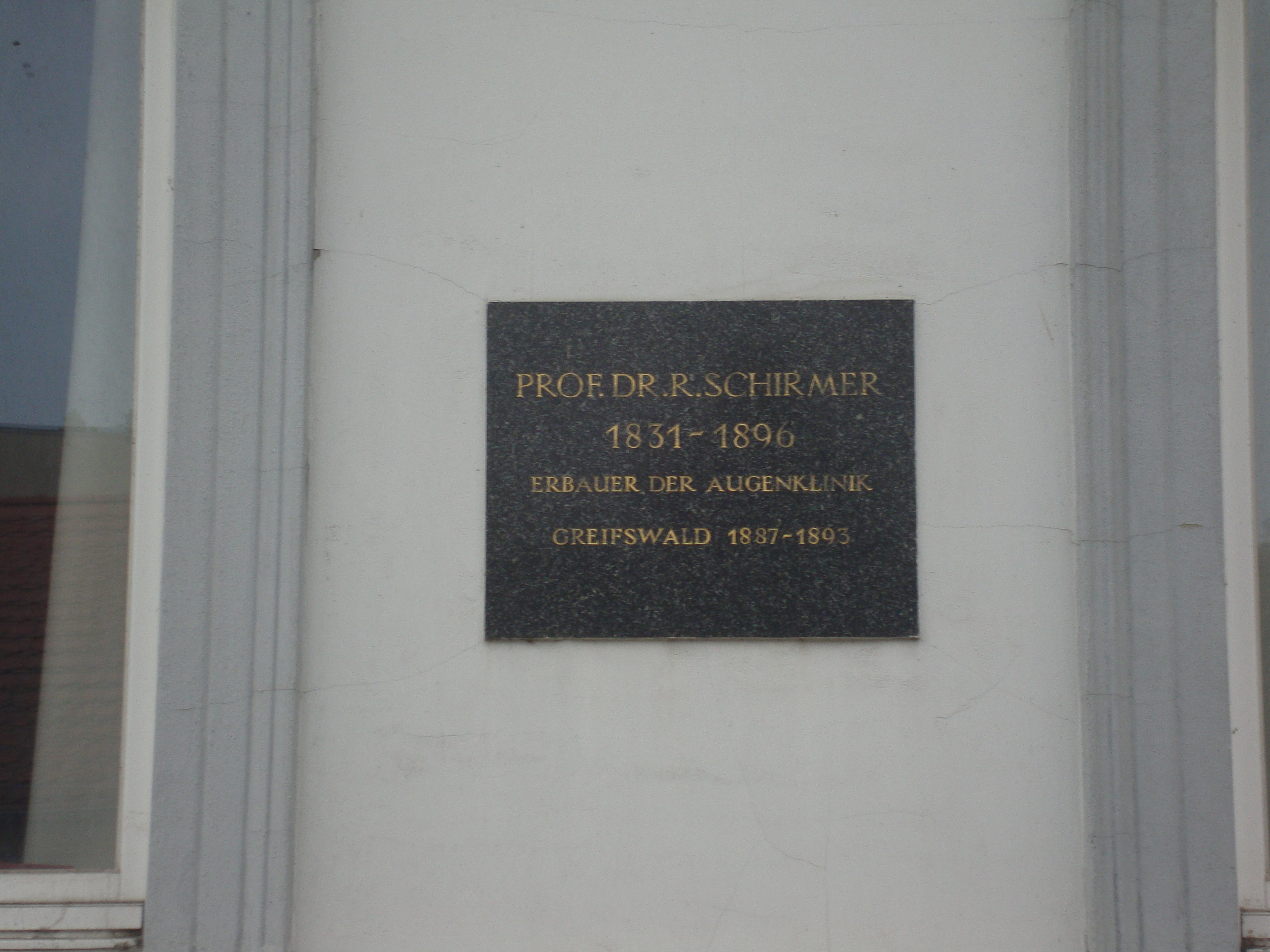 Commemorative plaque for Rudolf Schirmer at Bahnhofstraße 52 in Greifswald, Germany.